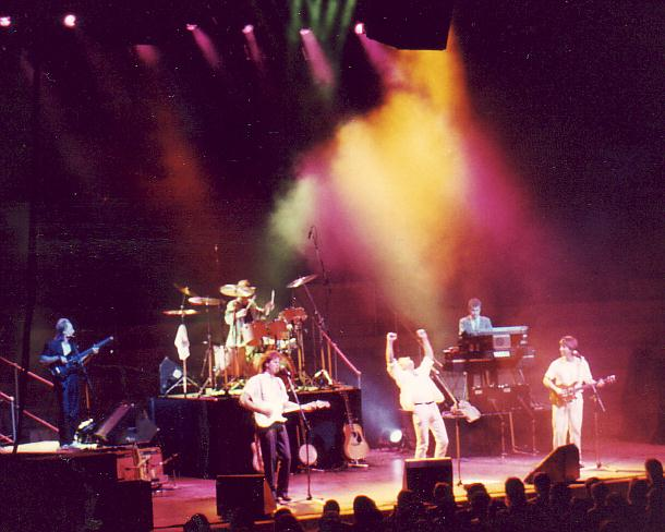 Own photo from Royal Albert Hall